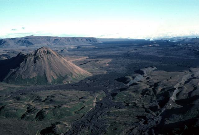 Krafla volcano.